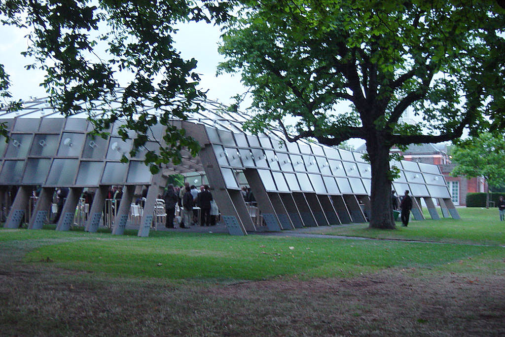 The Serpentine Gallery Pavilion 2005 — by architects Álvaro Siza and Eduardo Souto de Moura.